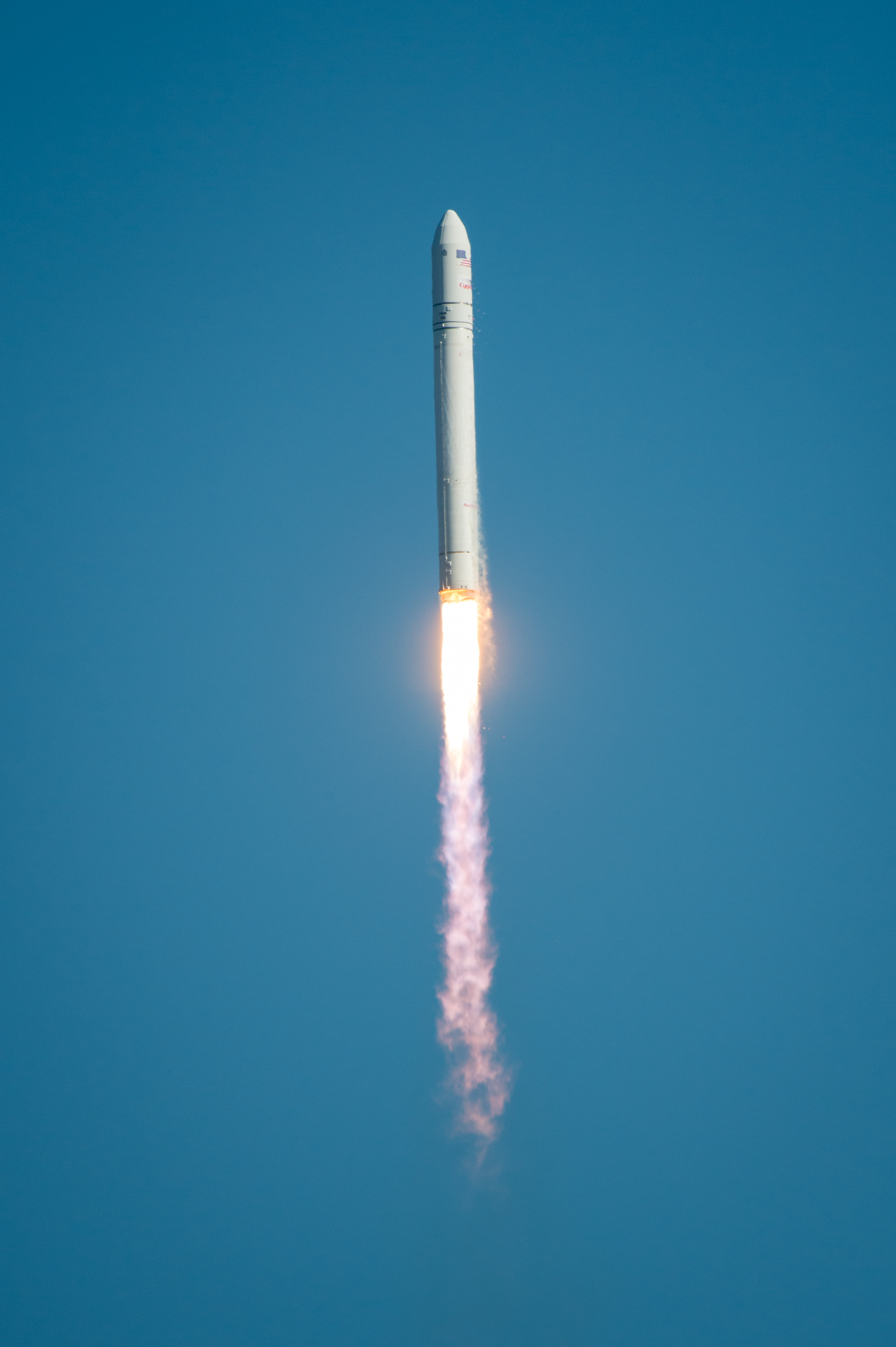 The Orbital Sciences Corporation Antares rocket is seen as it launches from Pad-0A of the Mid-Atlantic Regional Spaceport (MARS) at the NASA Wallops Flight Facility in Virginia, Sunday, April 21, 2013. The test launch marked the first flight of Antares and the first rocket launch from Pad-0A. The Antares rocket delivered the equivalent mass of a spacecraft, a so-called mass simulated payload, into Earth's orbit.